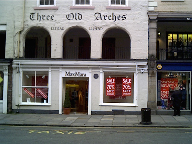 The Three Old Arches. The oldest shop front in Britain The Oldest Shop Front is Britain. AD 1274.